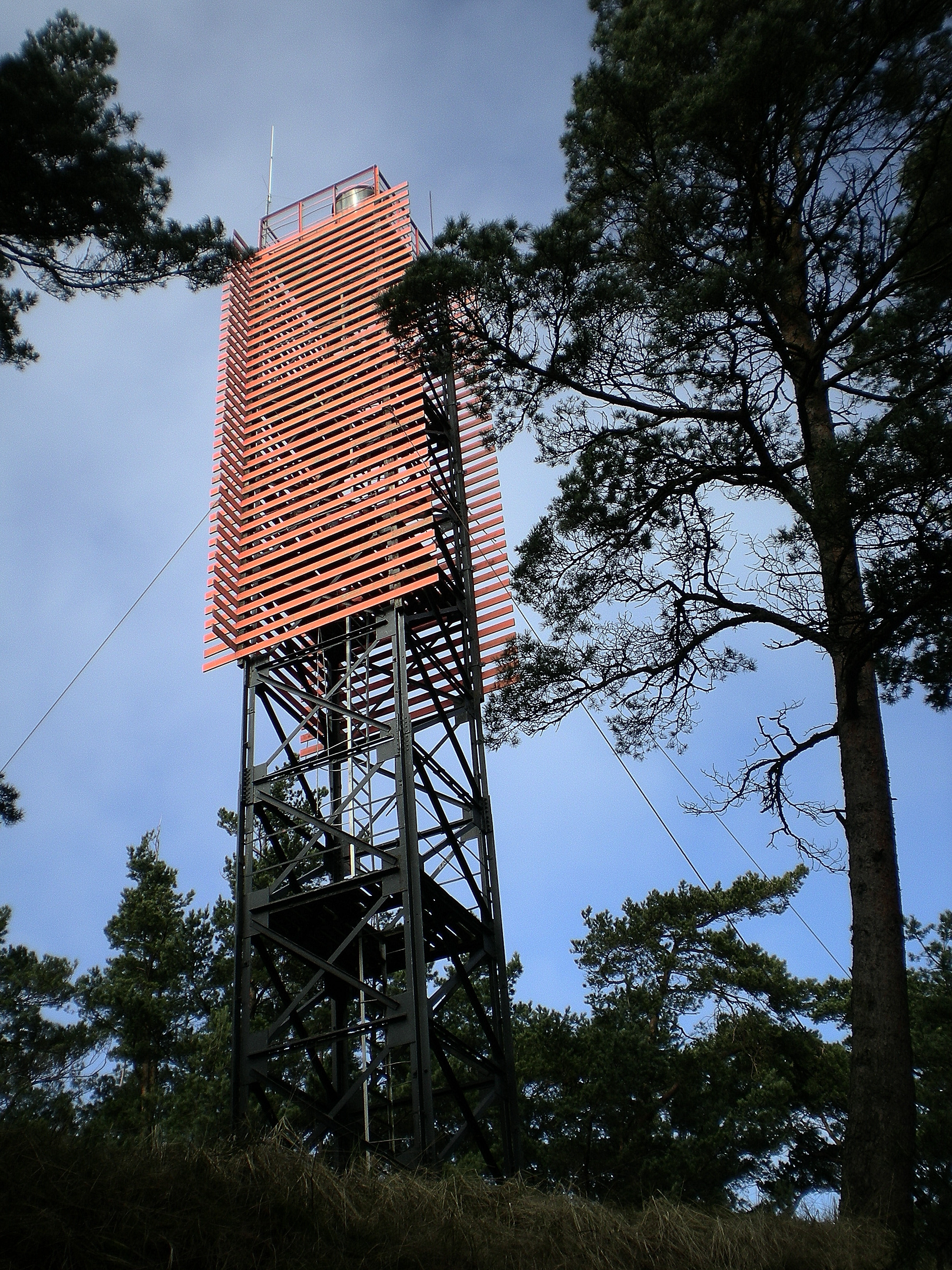 Bernati lighthouse